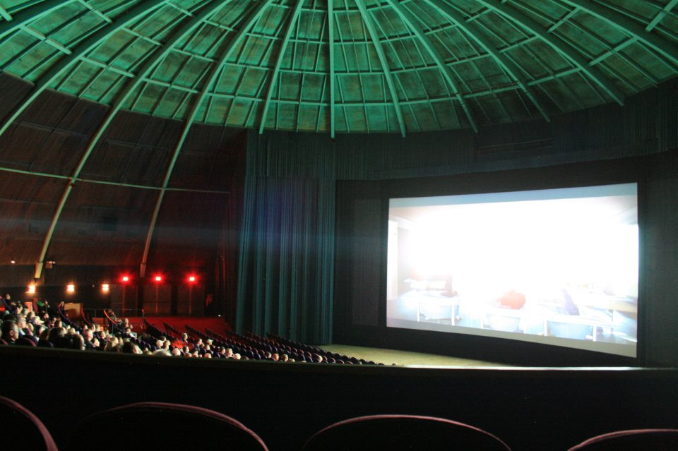 Interior of the CinéArts "Dome" Theater in Pleasant Hill, California on its last night of operation - April 21, 2013.